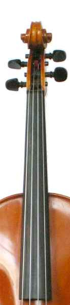 Fingerboard, cropped from image:Violin VL100.jpg